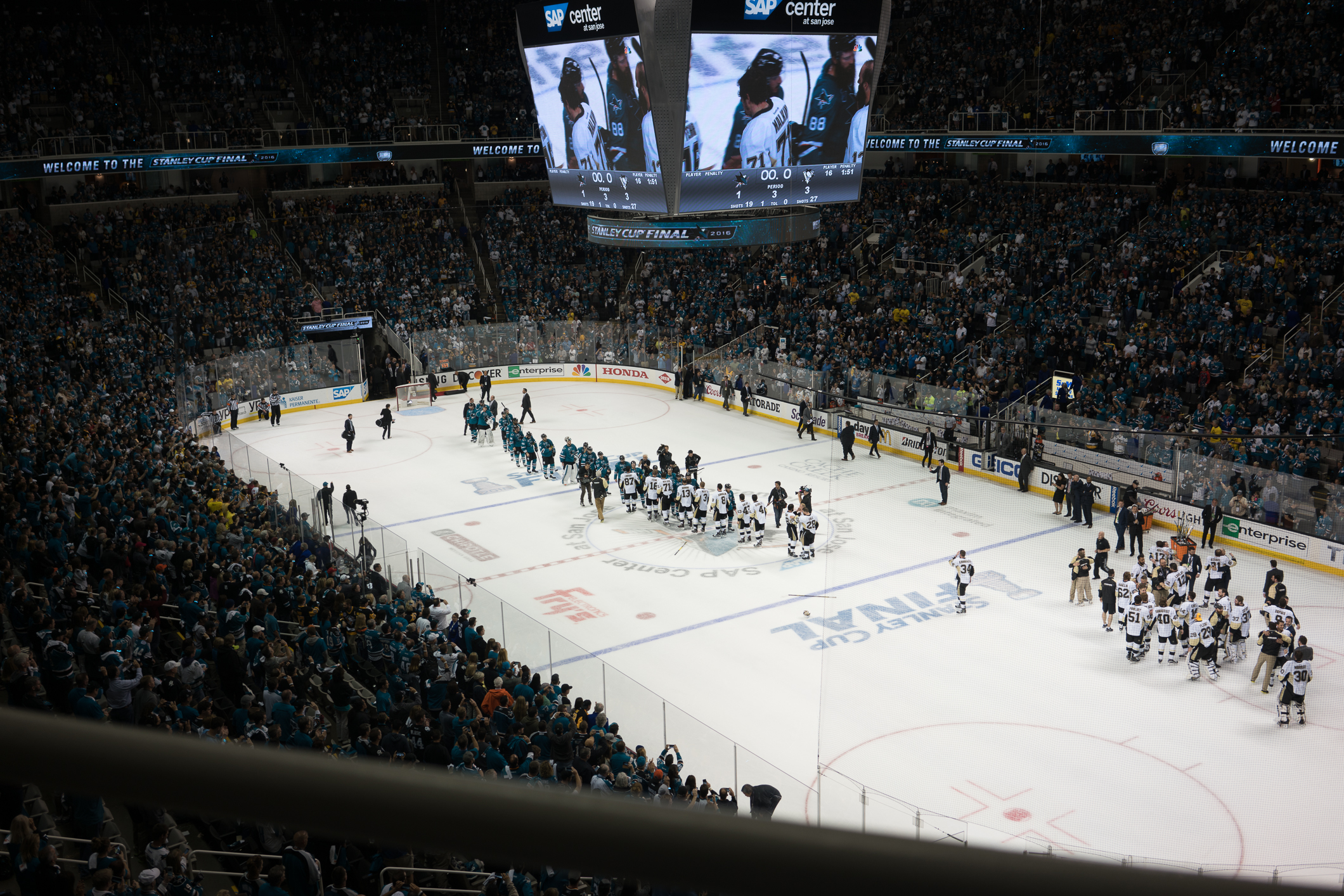 Two teams haking hands after game 6 of the 2016 Stanley Cup Finals